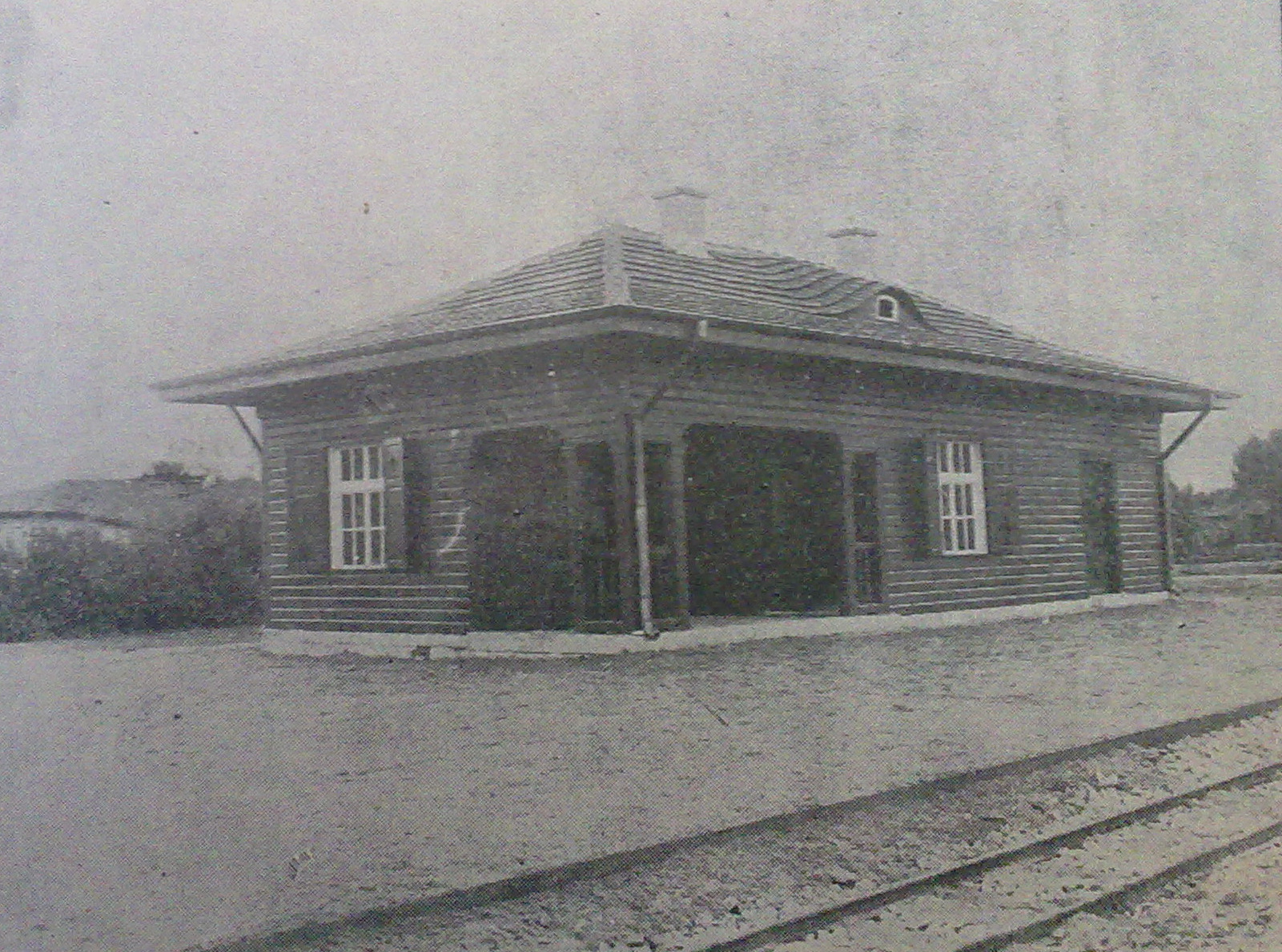 Velingrad railway station on Septemvri-Dobrinishte narrow gauge line, Bulgaria, the 1920's.